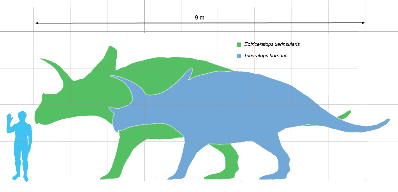 Size of the ceratopsian dinosaur Eotriceratops (green) compared with Triceratops and a human.